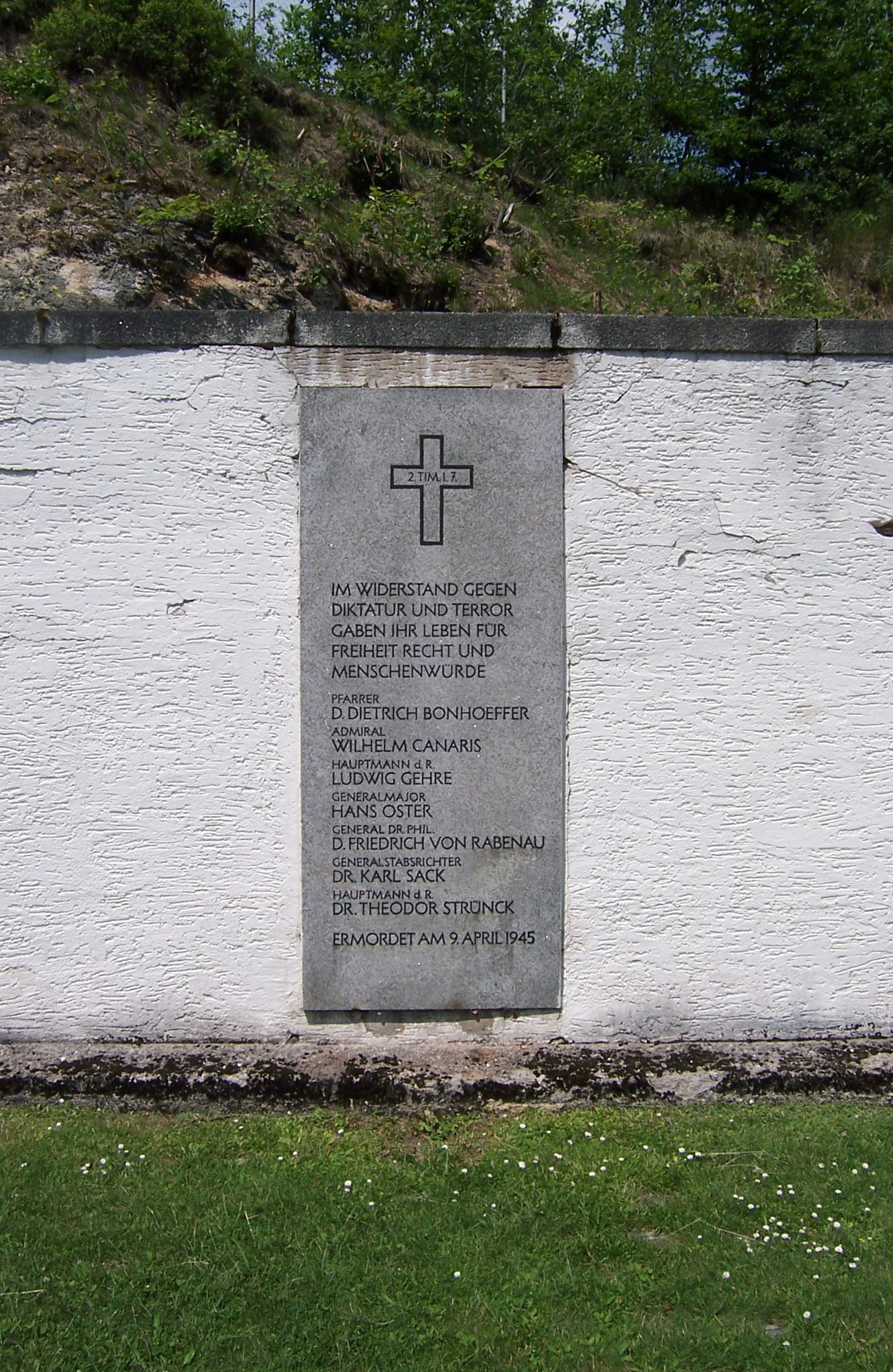 Flossenbürg concentration camp, Arrestblock-Hof: Memorial to members of German resistance executed on April 9, 1945. Translation: "In resistance against dictatorship and terror, they gave their lives for freedom, justice, and human dignity."